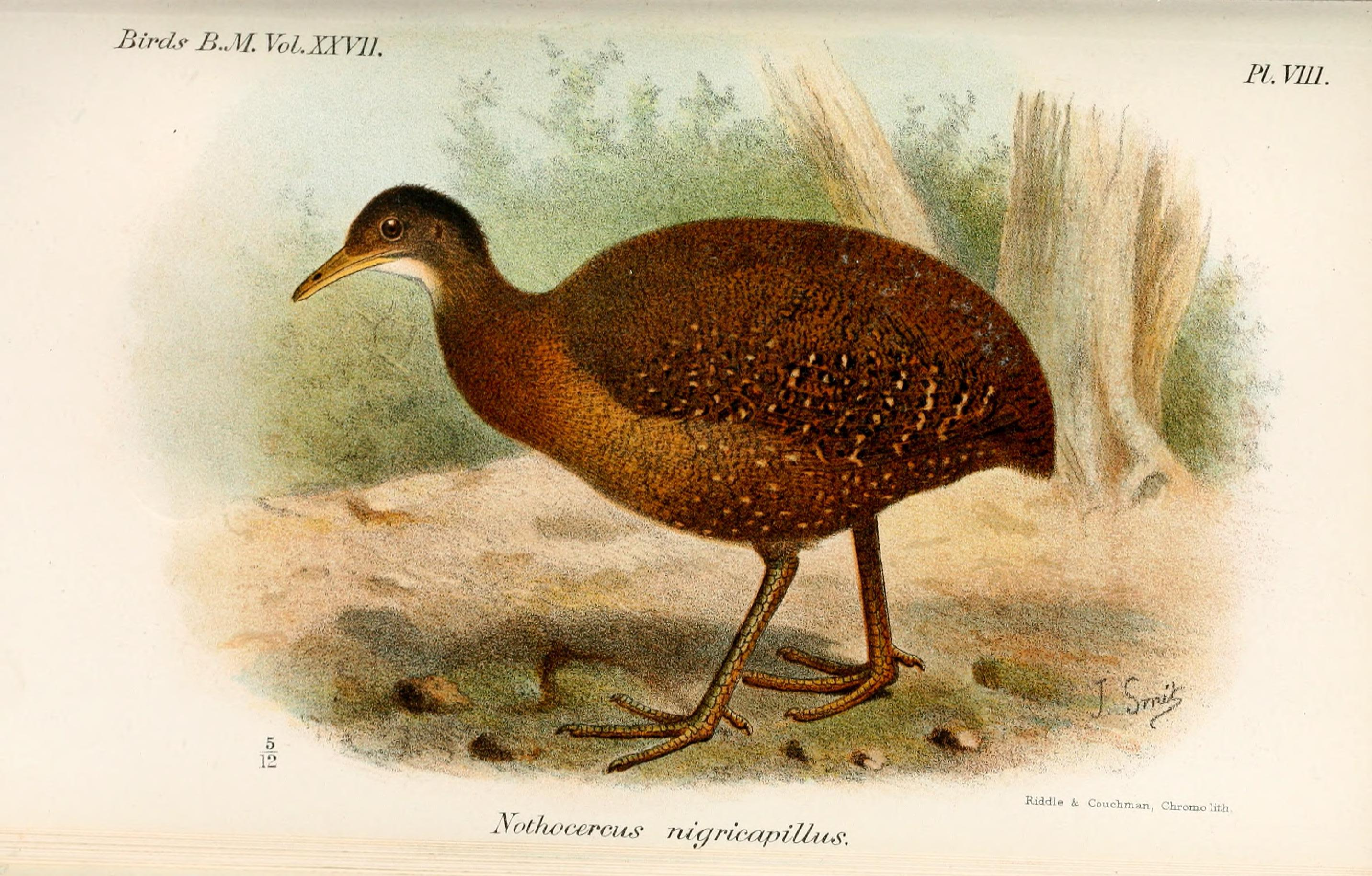 Nothocercus nigricapillus = Nothocercus nigrocapillus, Hooded Tinamou